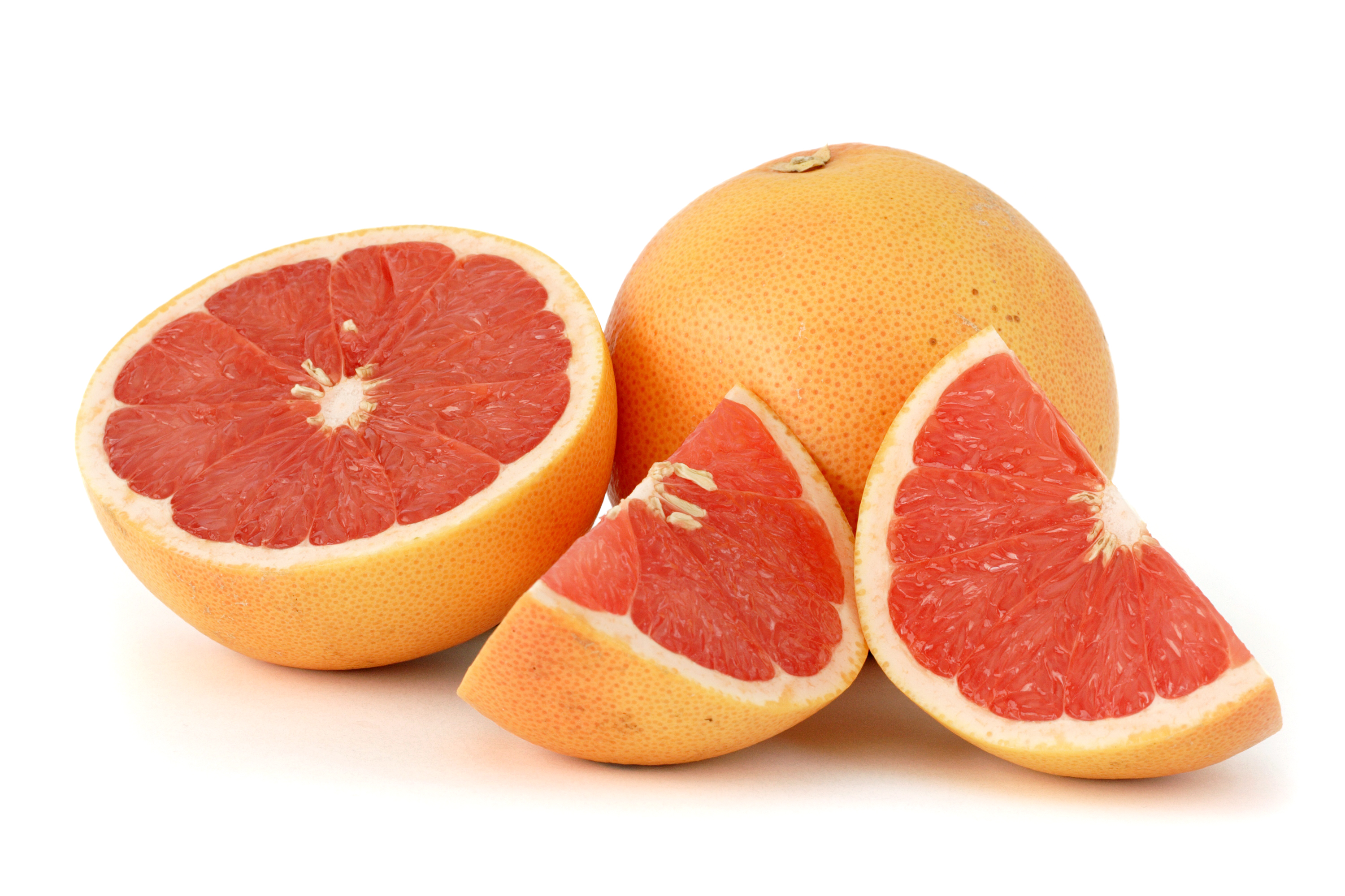 Citrus paradisi (Pink Grapefruit) This photograph shows two pink grapefruits (Citrus ×paradisi) var. Ruby Red, one of the two cut in pieces.